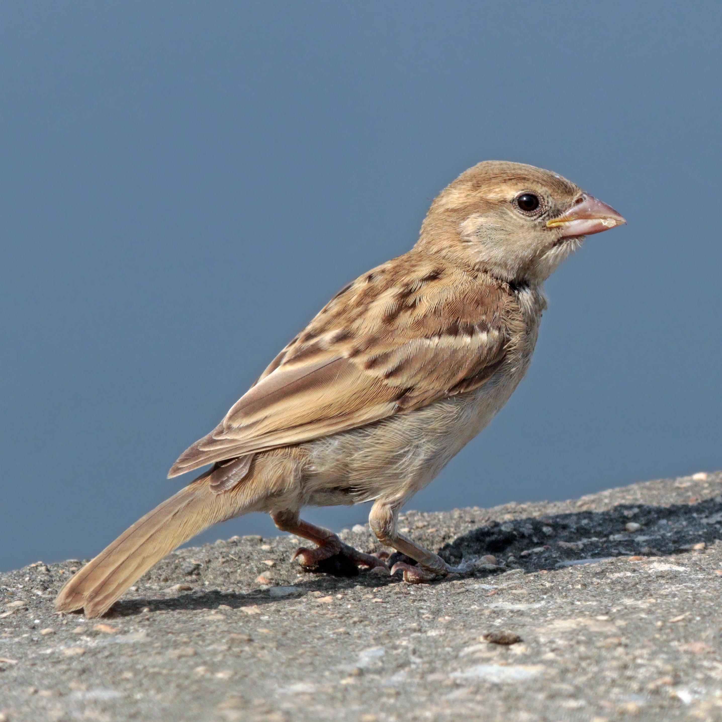 Indian sparrow (Passer domesticus indicus) immature in Udaipur, India. The juvenile has a fleshy yeelow gape at the base of its bill (see image note).